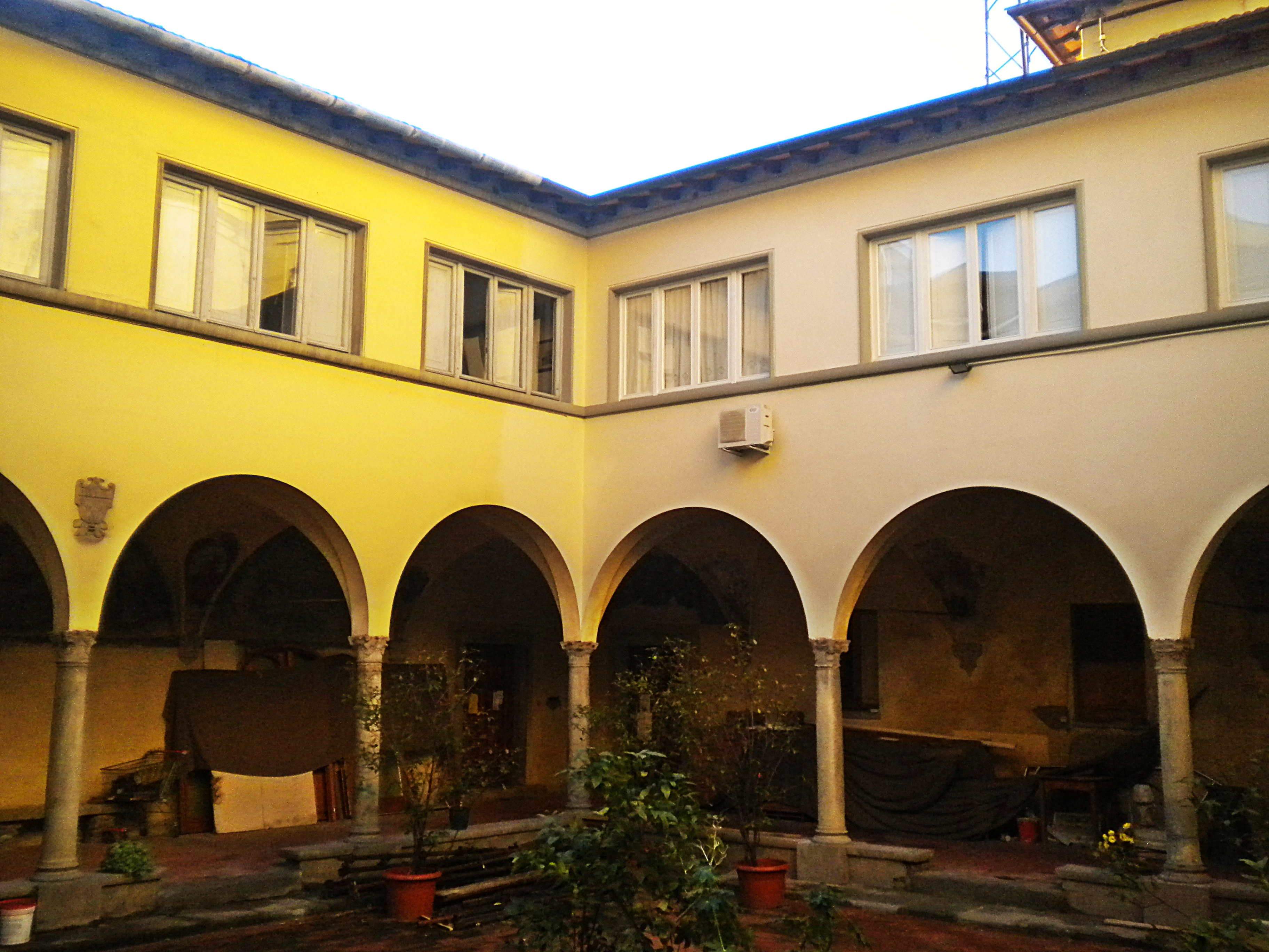 cloister